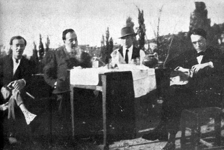 (left to right:) Emiliano Barral, Antonio Machado, Torreagero y Otero in San Gregorio garden (Segovia, Spain ca. 1923).